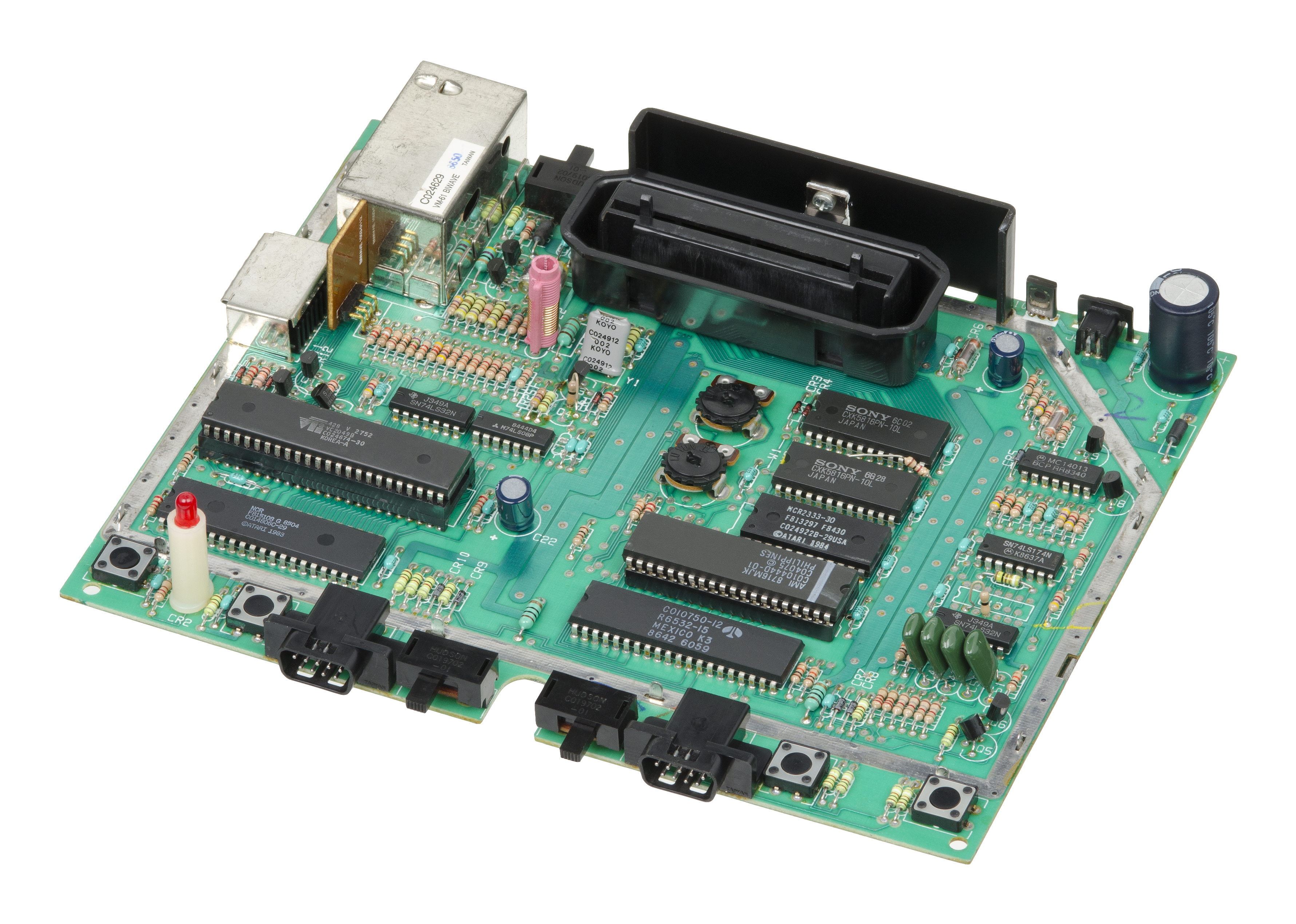 The motherboard of Atari 7800 video game console, a third-generation gaming system from Atari that was released nationwide in 1986. This photo shows the console with the top casing and RF shielding removed.